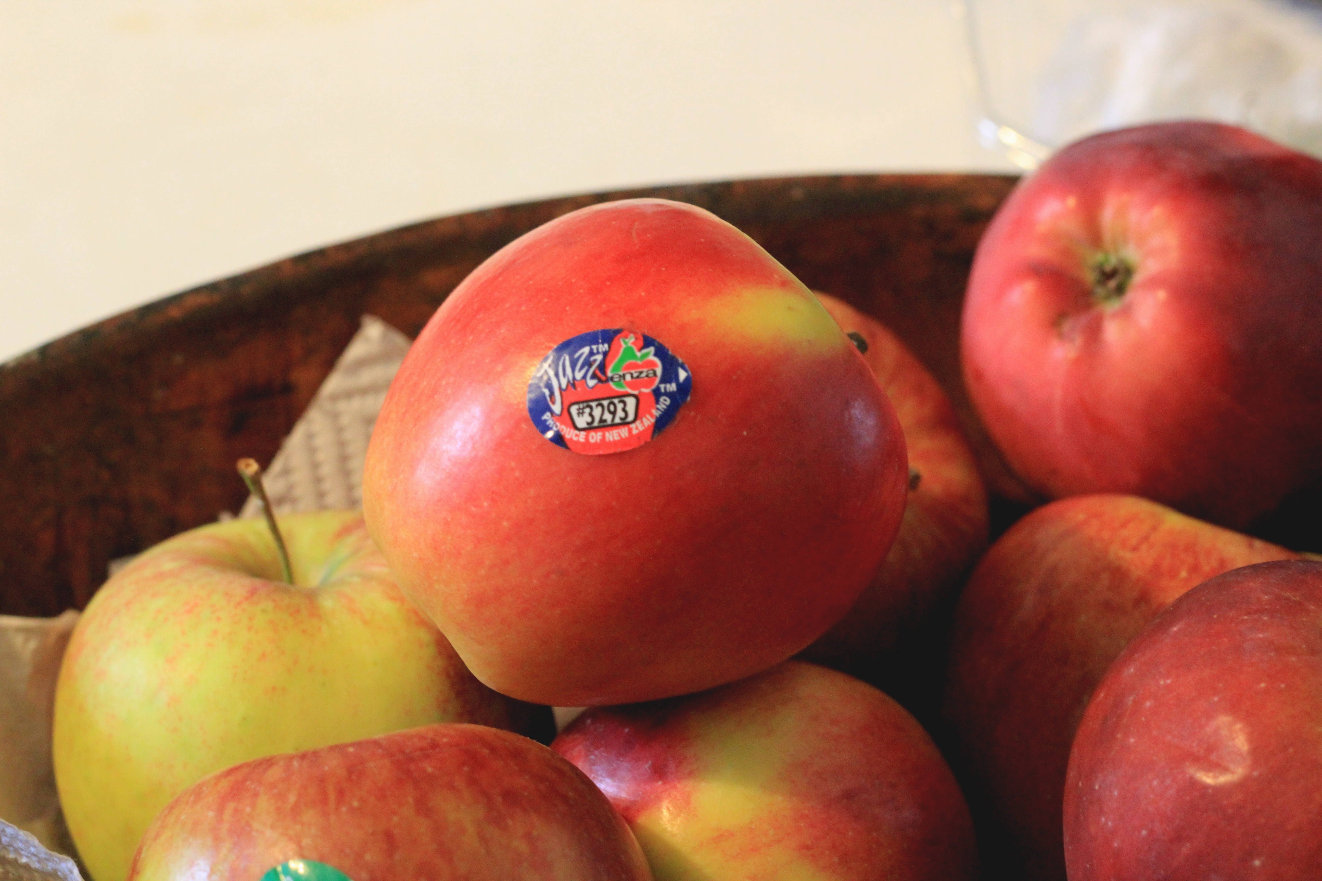 Fruit bowl full of Jazz apples from New Zealand